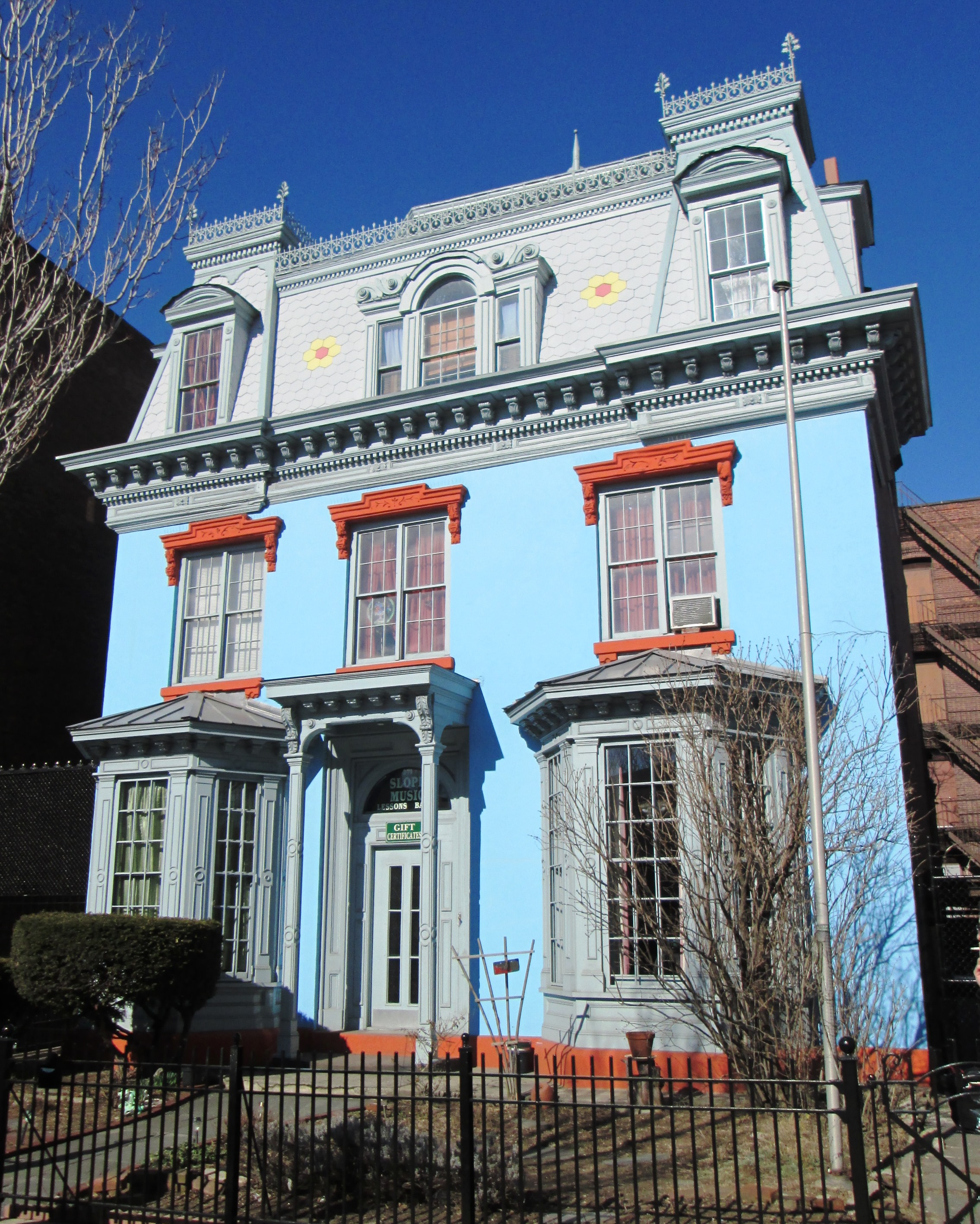 The William B. Cronyn House at 271 9th Street between Fourth and Fifth Avenues in the South Slope neighborhood of Brooklyn, New York City was built in 1856-57 and was designed by Patrick Charles Keely in the French Second Empire style. Cronyn was a Wall Street merchant, and his suburban villa predates the brownstoning of Brooklyn. The house was altered in 1895 and served as the site of the Charles M. Higgins Ink Factory, which made India ink. (Sources: Guide to NYC Landmarks (4th ed.) and AIA Guide to NYC Landmarks (5th ed.))